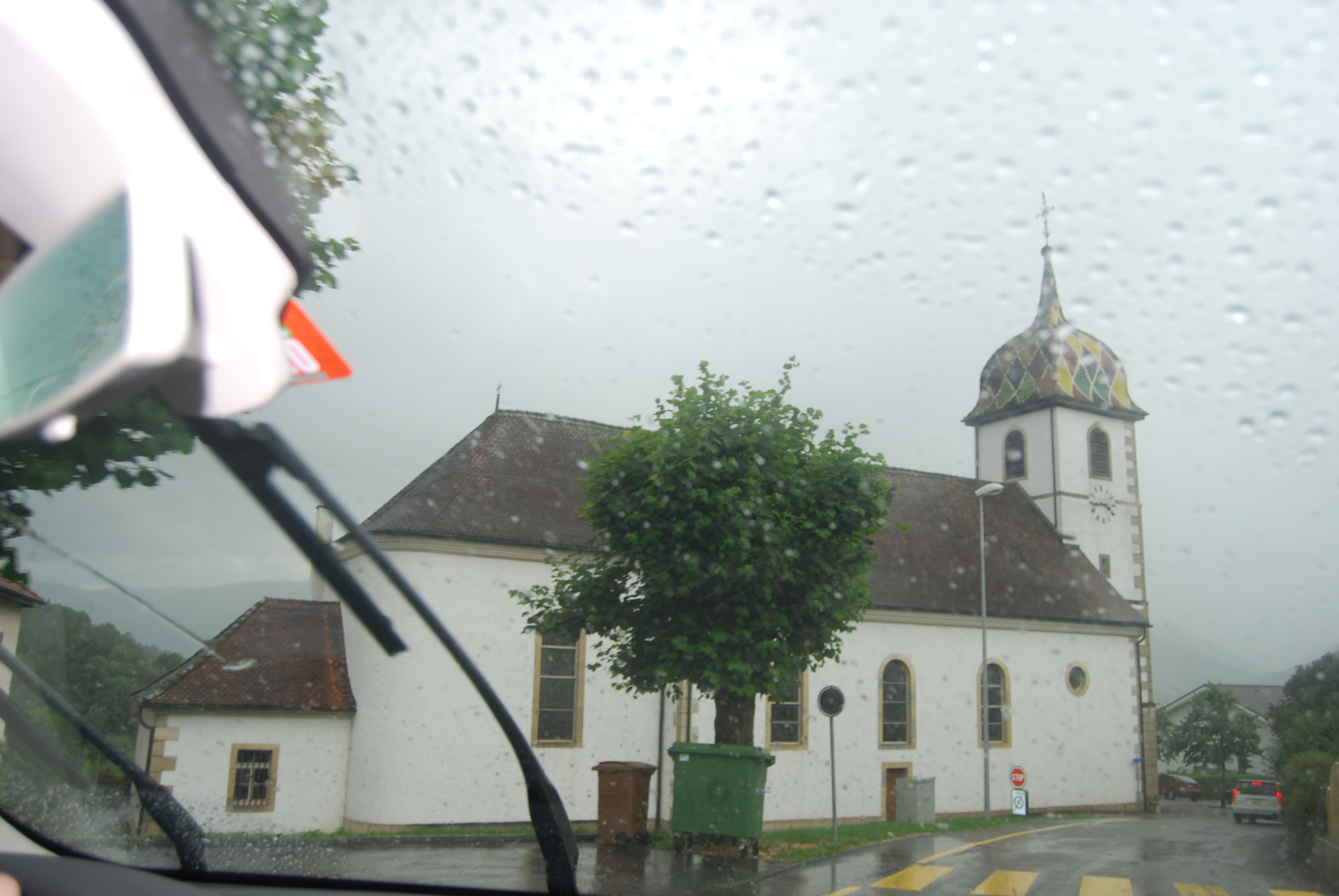 Church of Boécourt, canton of Jura, Switzerland